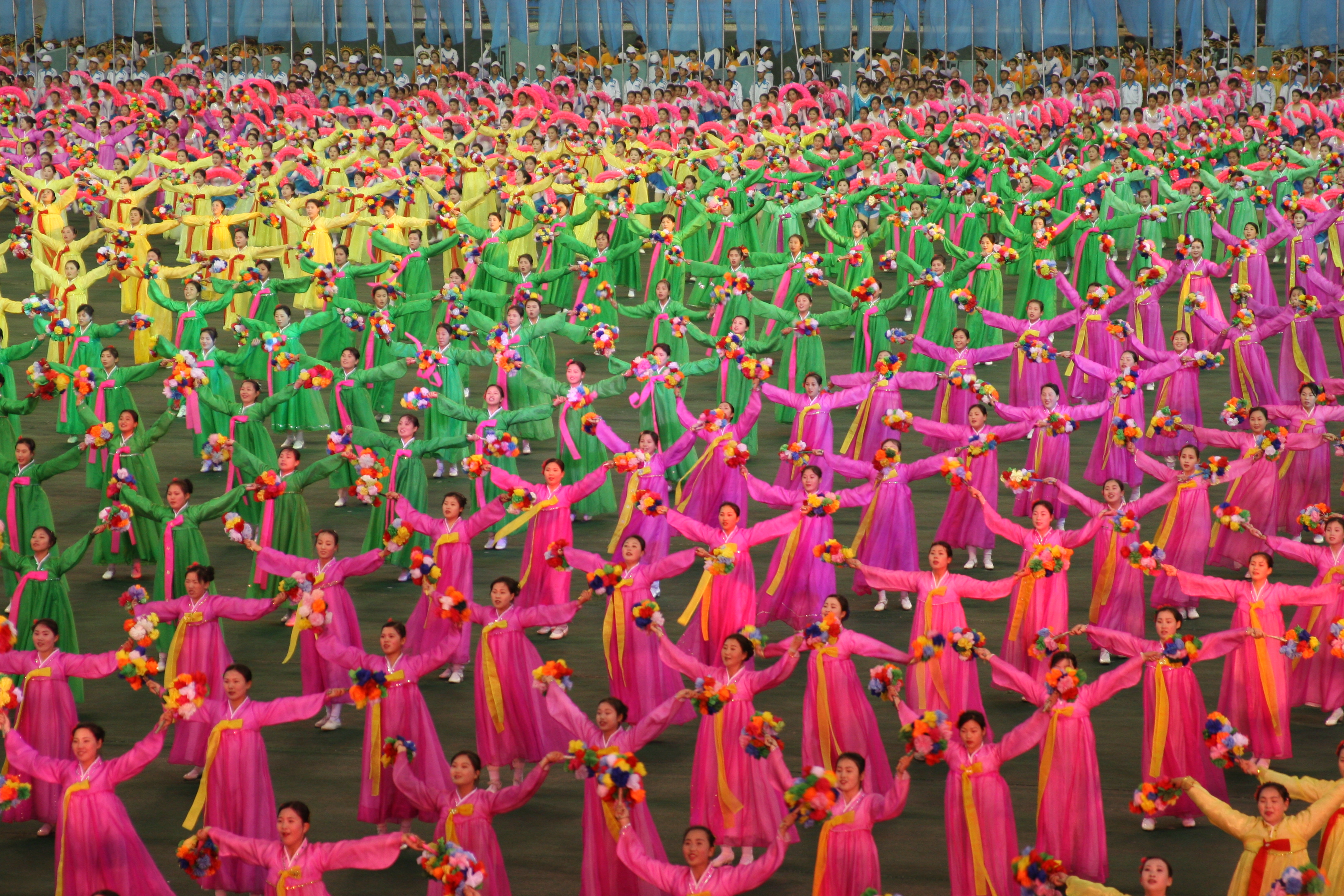 Mass Games